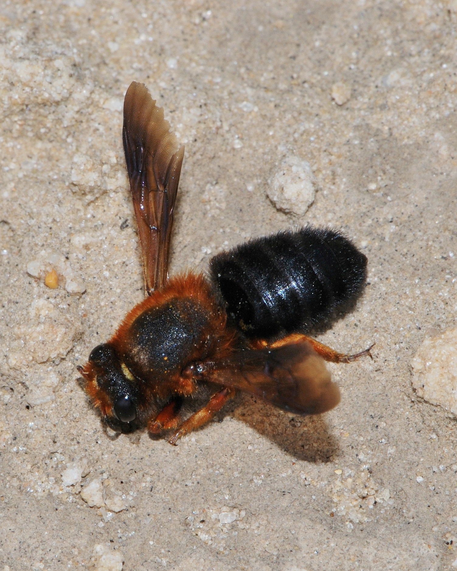 Female Megachile (Chalicodoma) sicula collecting sand to build her nest, Nes Ziyona, Israel, April 3, 2011.